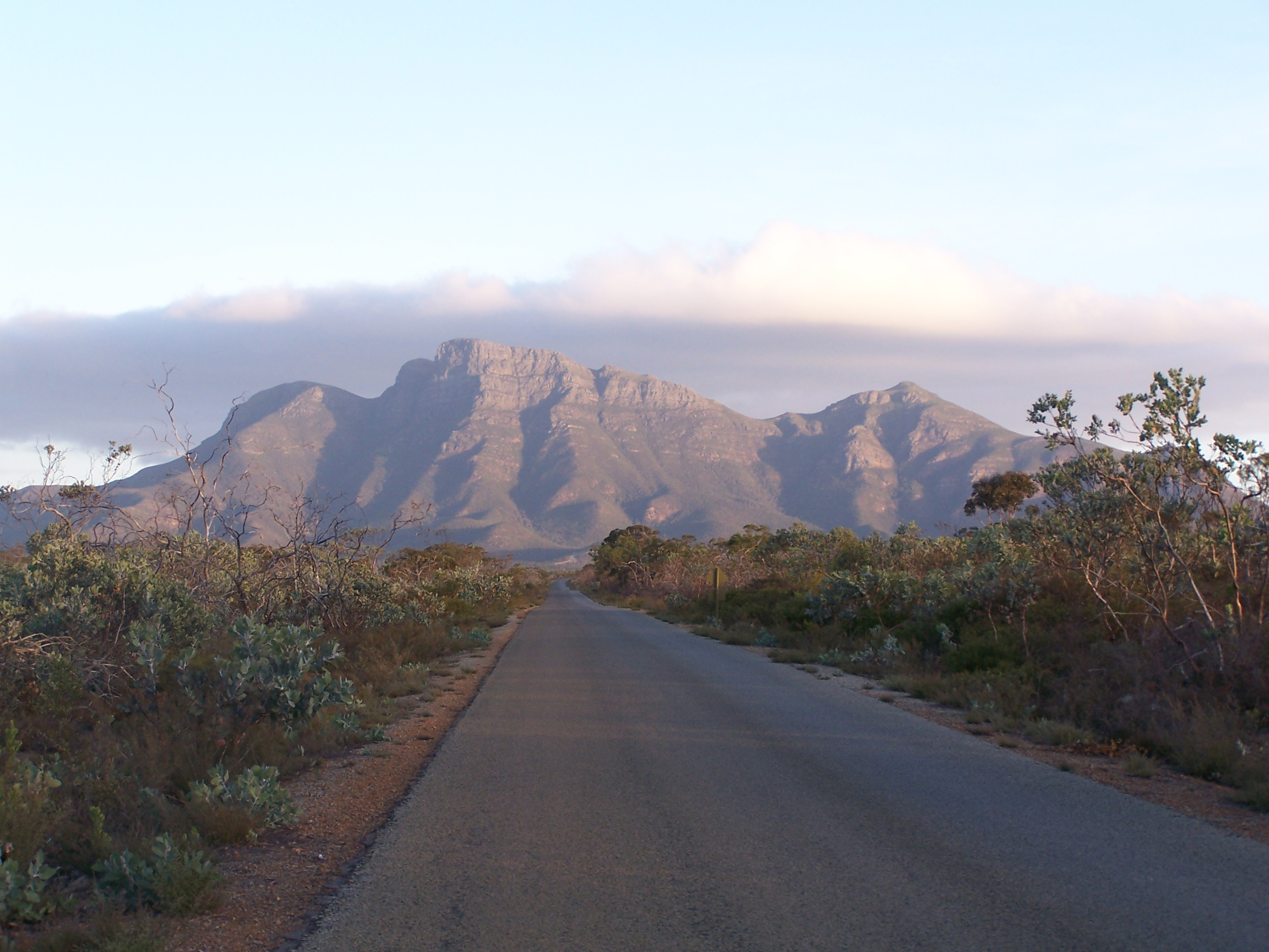 Image taken in the Stirling Range Bluff knoll